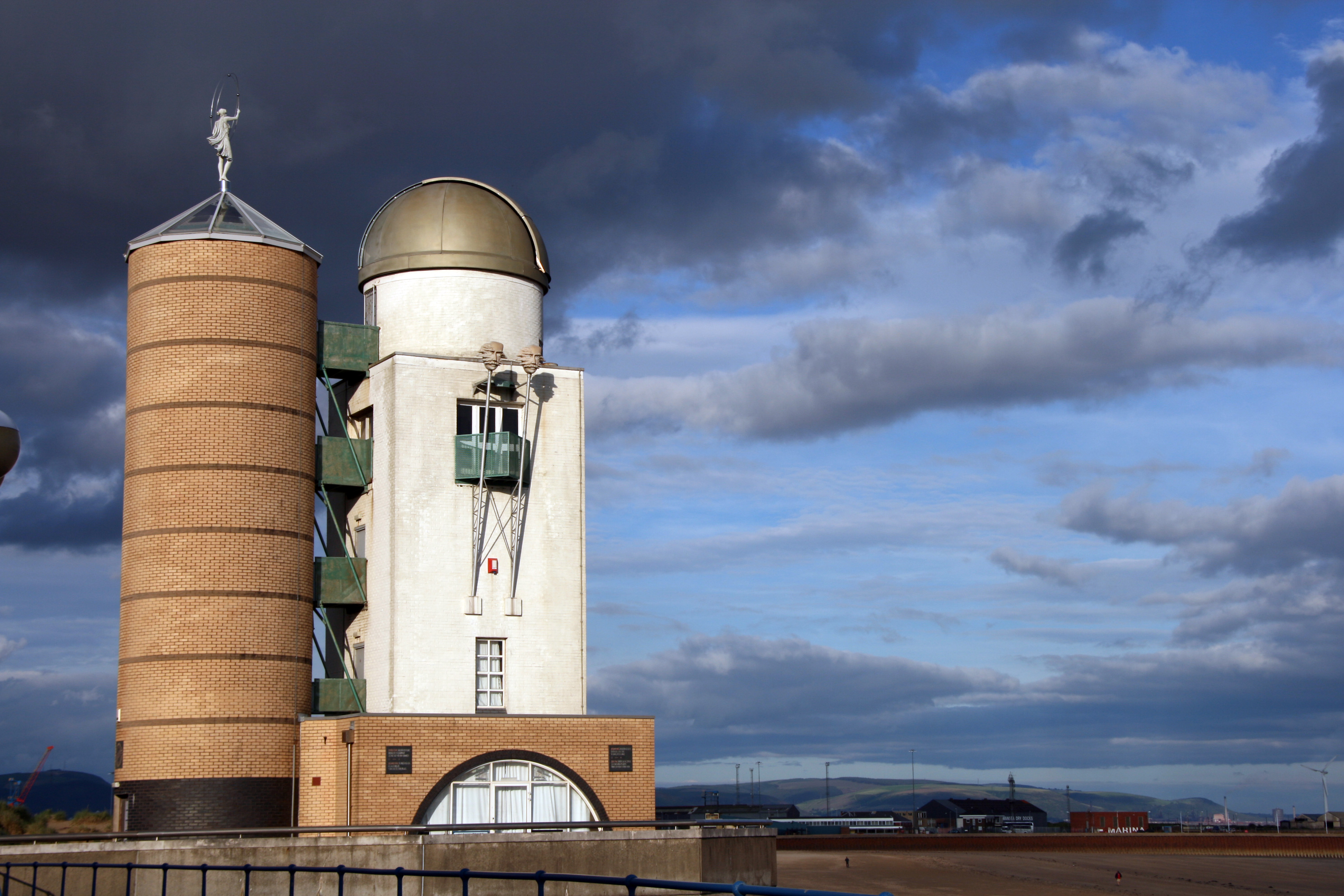 Marina Towers Observatory